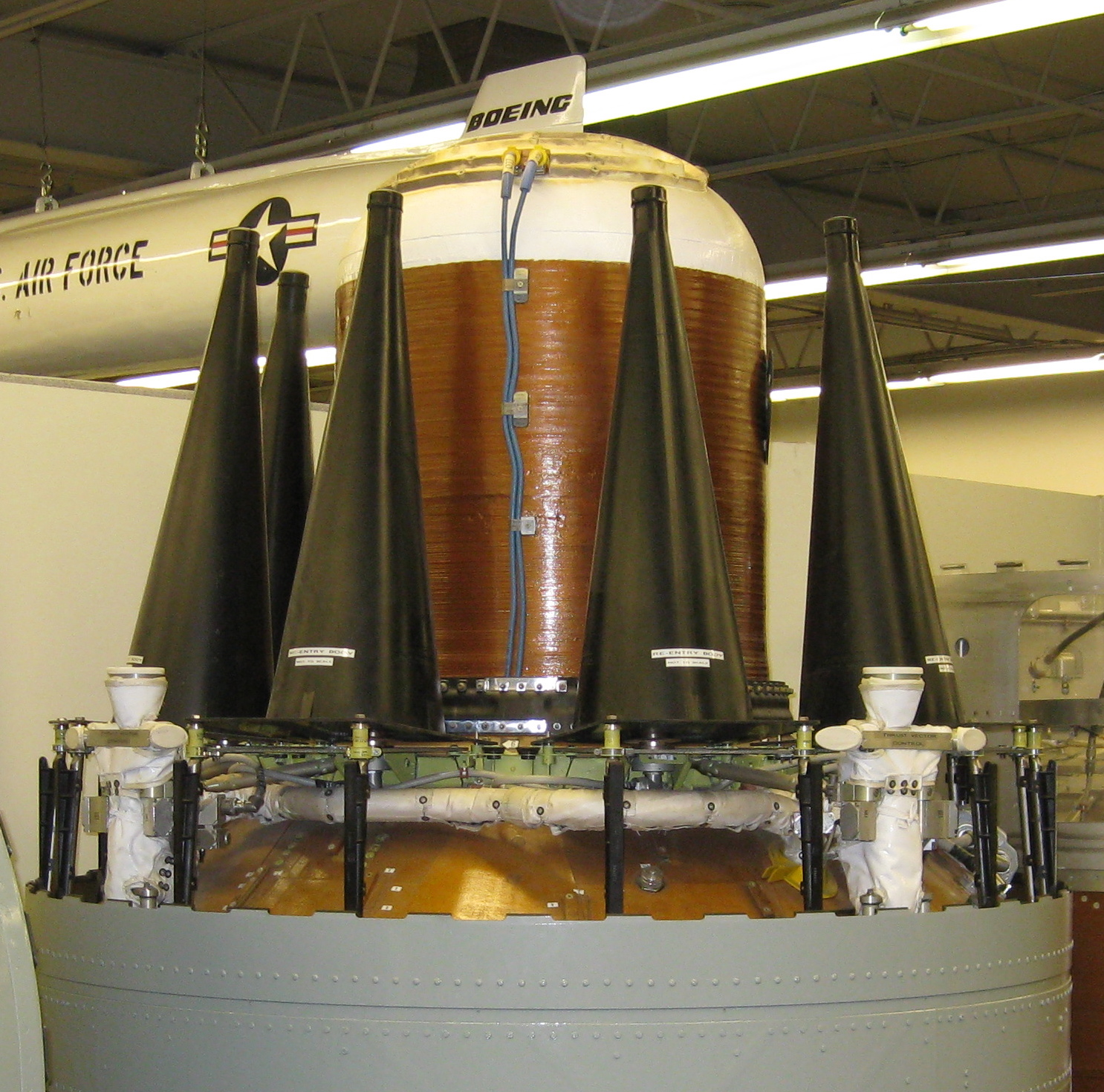 Models of the cone-shaped warheads on a Trident missile at the National Museum of Nuclear Science & History in New Mexico, United States.